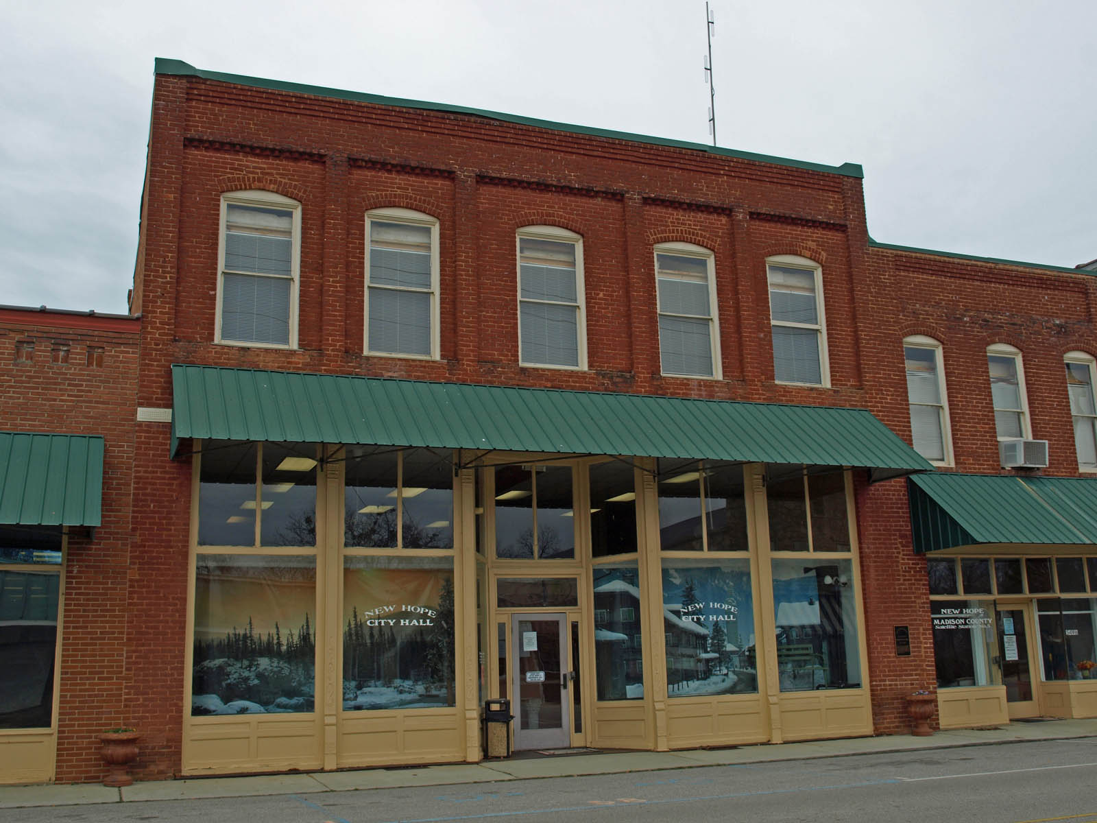 New Hope, Alabama, City Hall (formerly known as Butler's Store), listed on the National Register of Historic Places